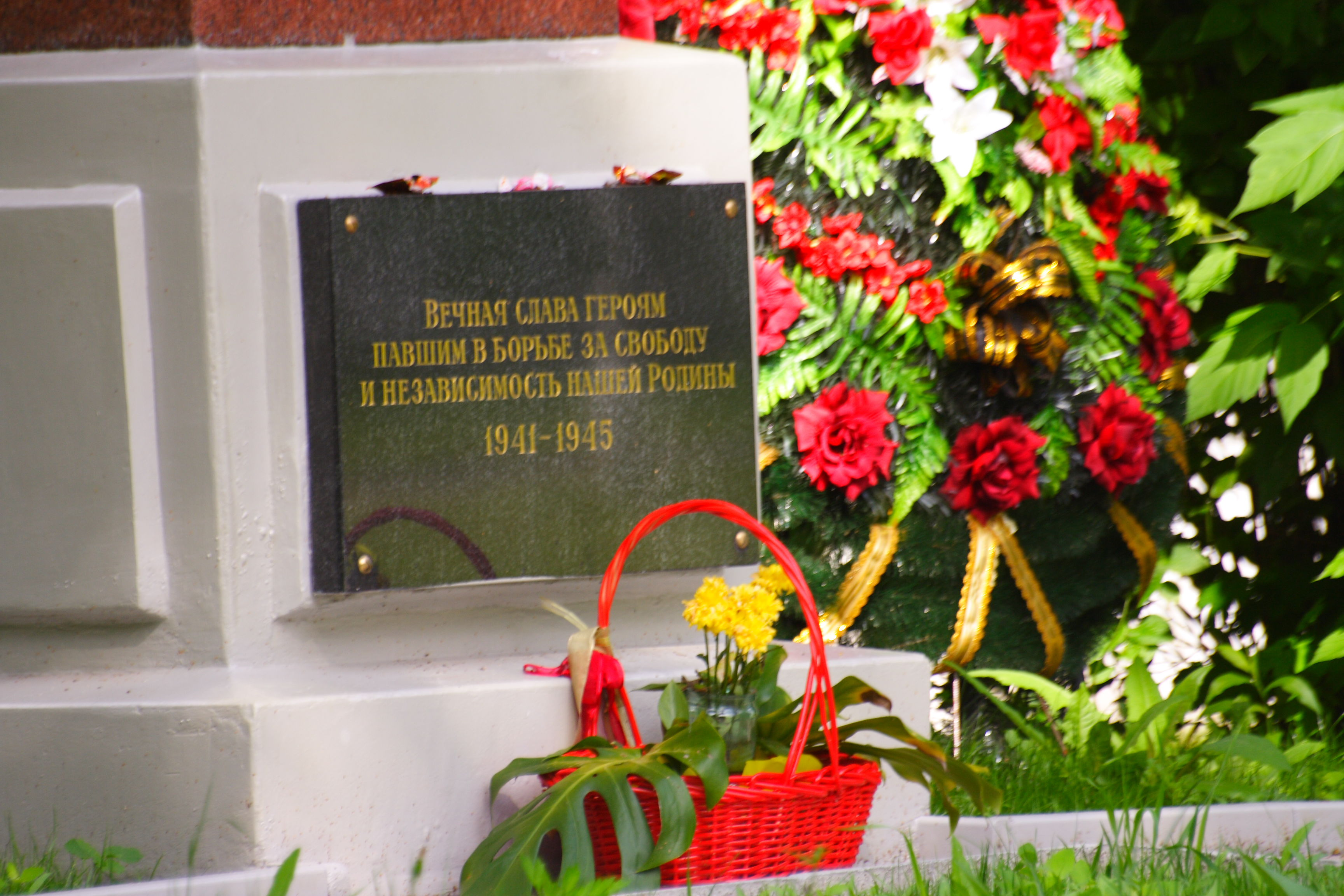 Memorial to 8 guards division in Grachovskiy Park